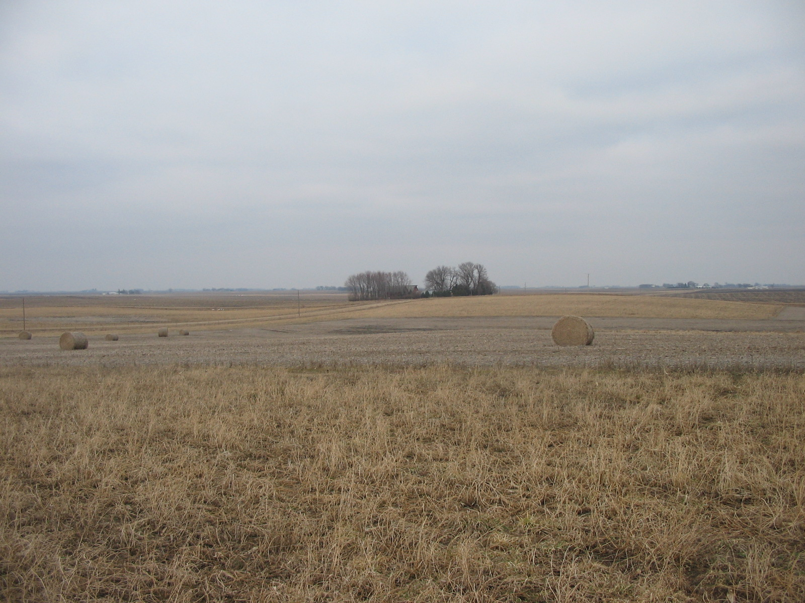 Shaun Murphy